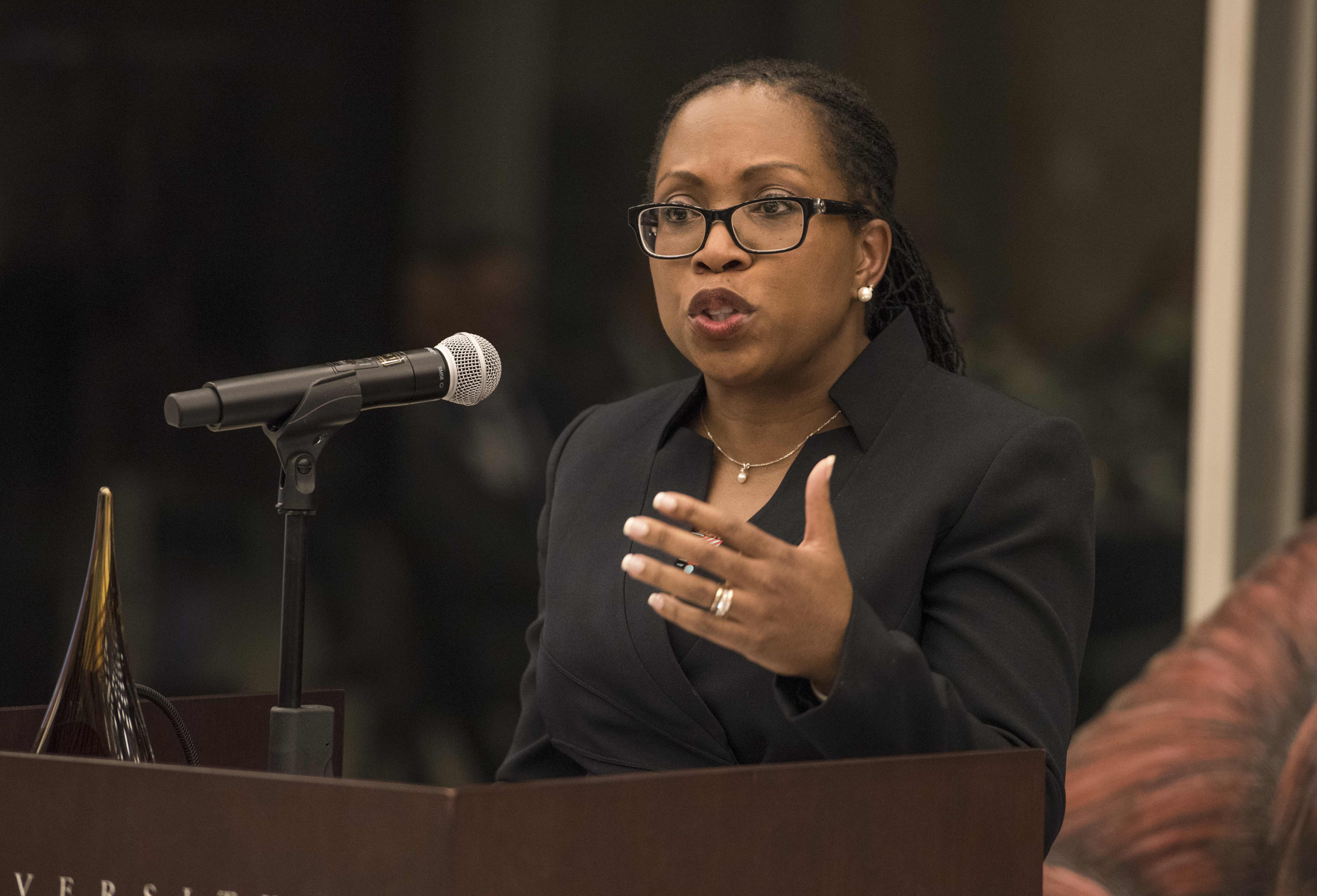 Judge Ketanji Brown Jackson, honoree at the Third Annual Judge James B. Parsons Legacy Dinner, February 24, 2020, University of Chicago Law School. Photographer Lloyd DeGrane.